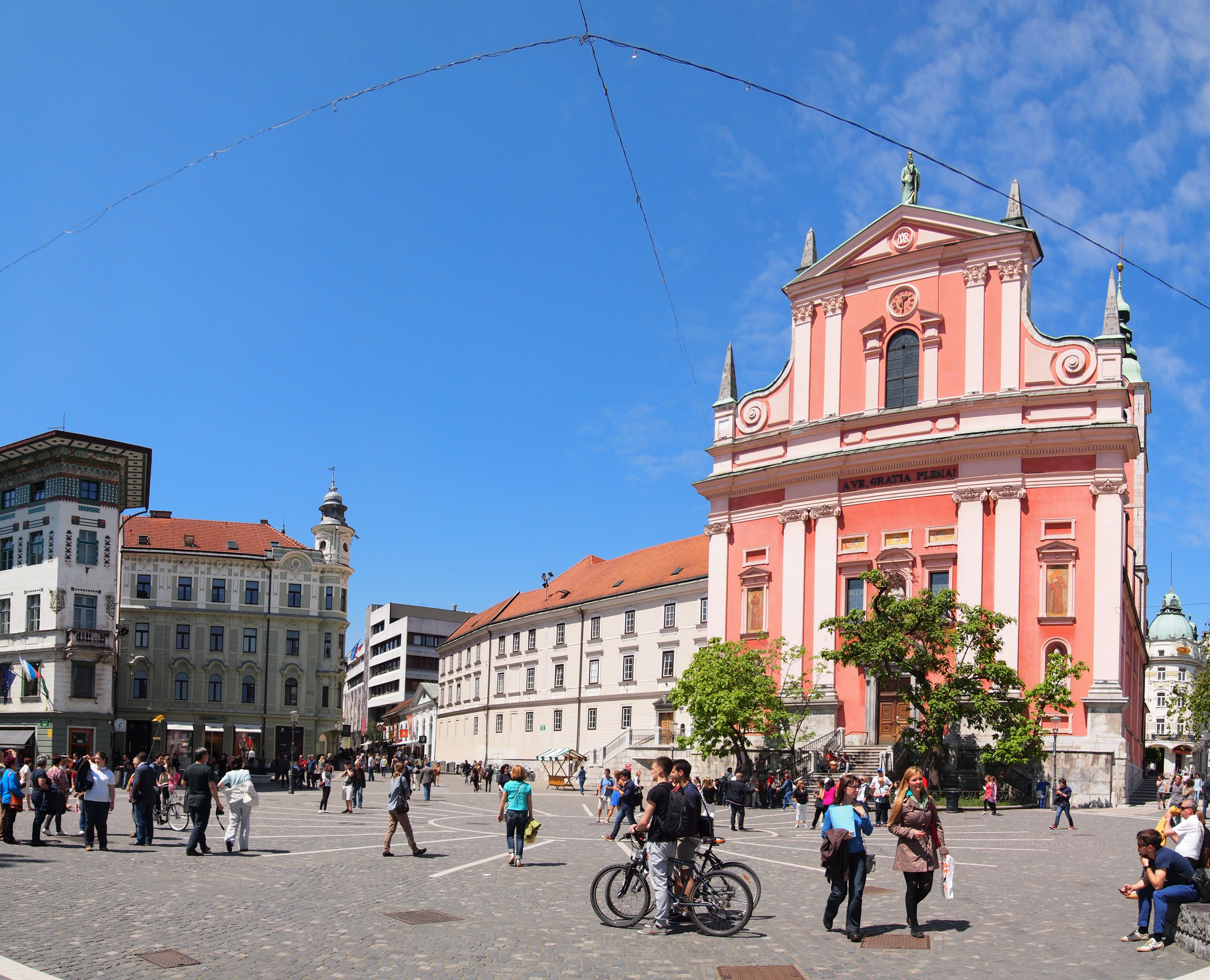 Prešeren Square in Ljubljana. This photograph was taken with an Olympus E-PL1